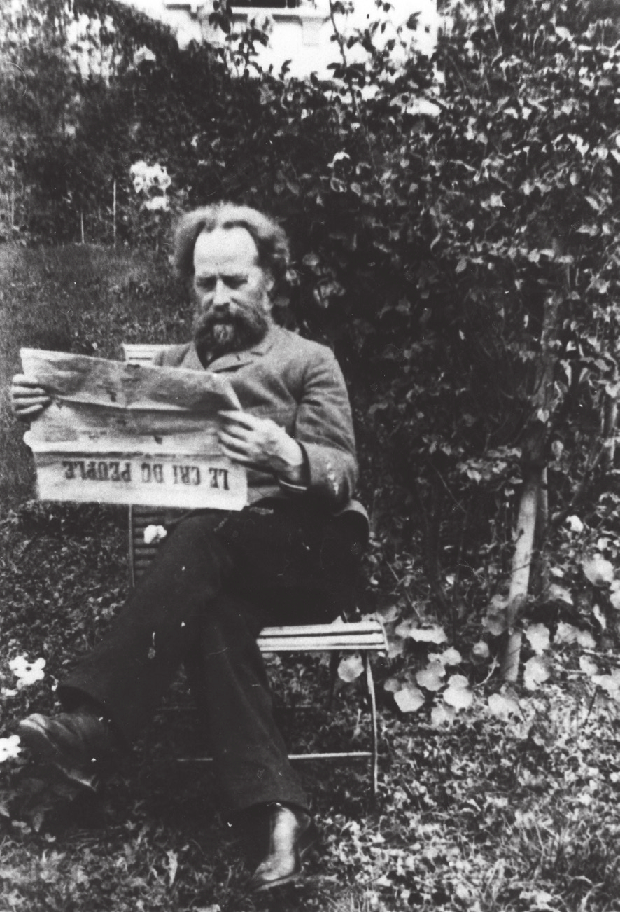 Élisée Reclus (1830-1905) reading "Le Cri du Peuple" in the garden of his home in Brussels.